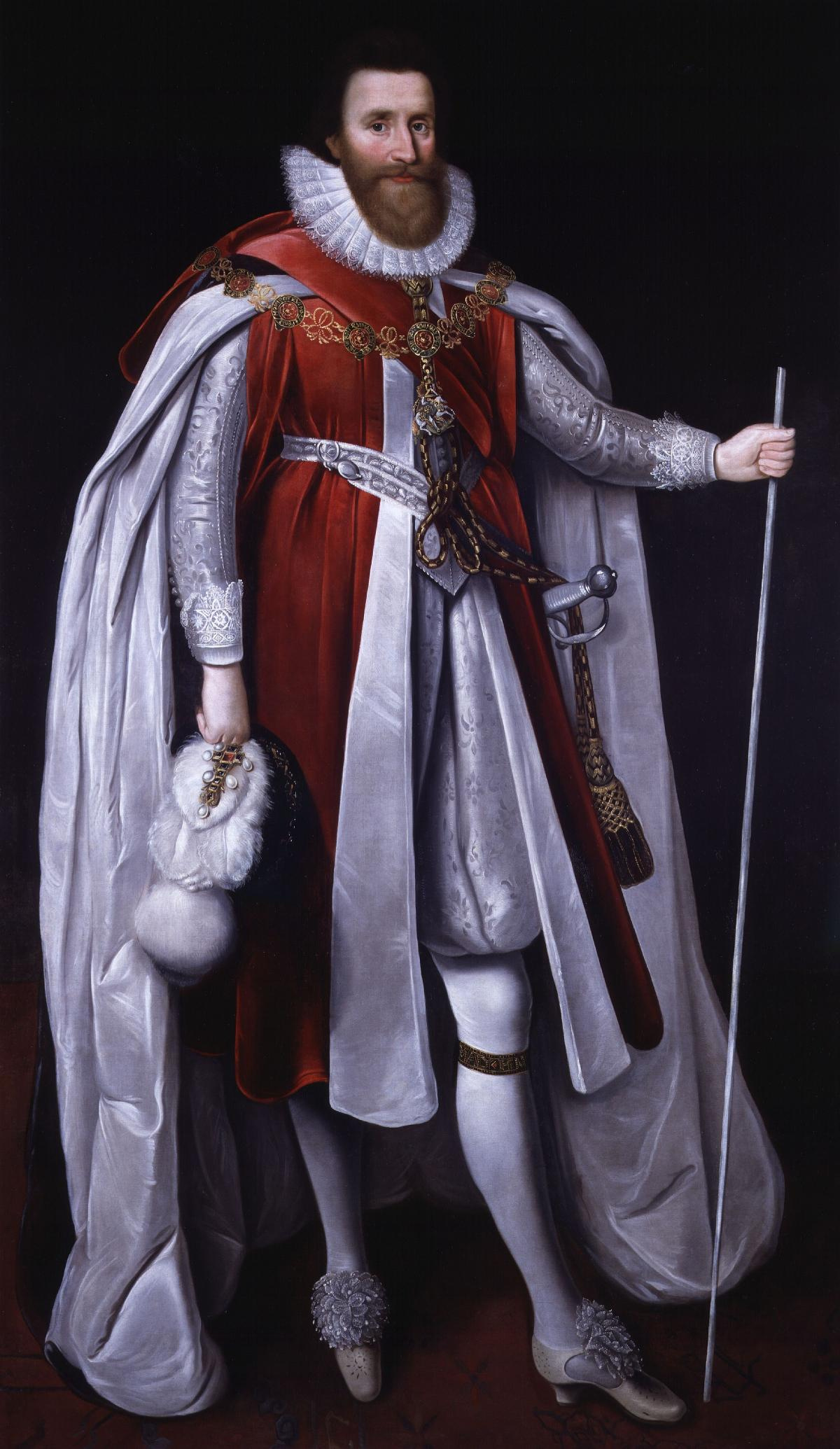 Purchased by NPG London, 1980, apparently one part of a double portrait of him and his wife by Paul van Somer, recorded at Parham Park, Pulborough, Sussex (Heinz Archive, London).